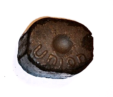 Briquette of lignite coal for home heating use